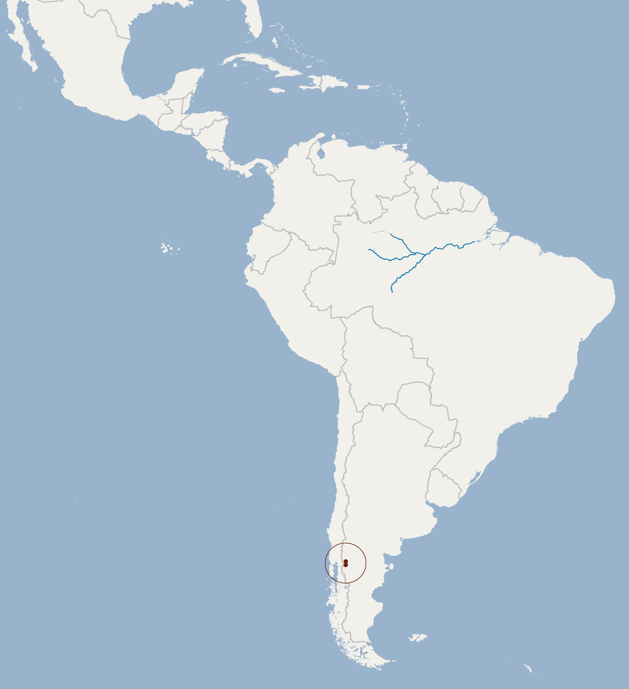 Geographical distribution of Myotis aelleni according to Museum specimens